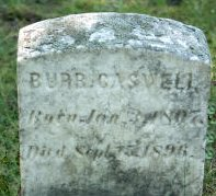 Aaron Burr Caswell tombstone